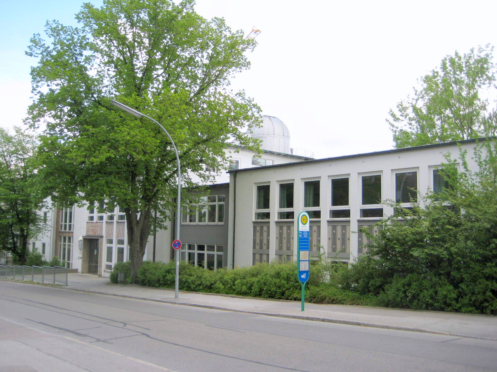 Josef-Hofmiller-Gymnasium, side facing Vimystraße